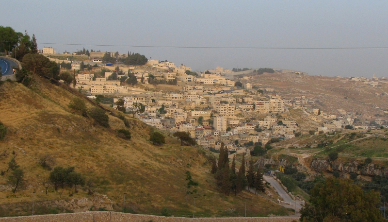 Village of Silwan below Mount Zion.